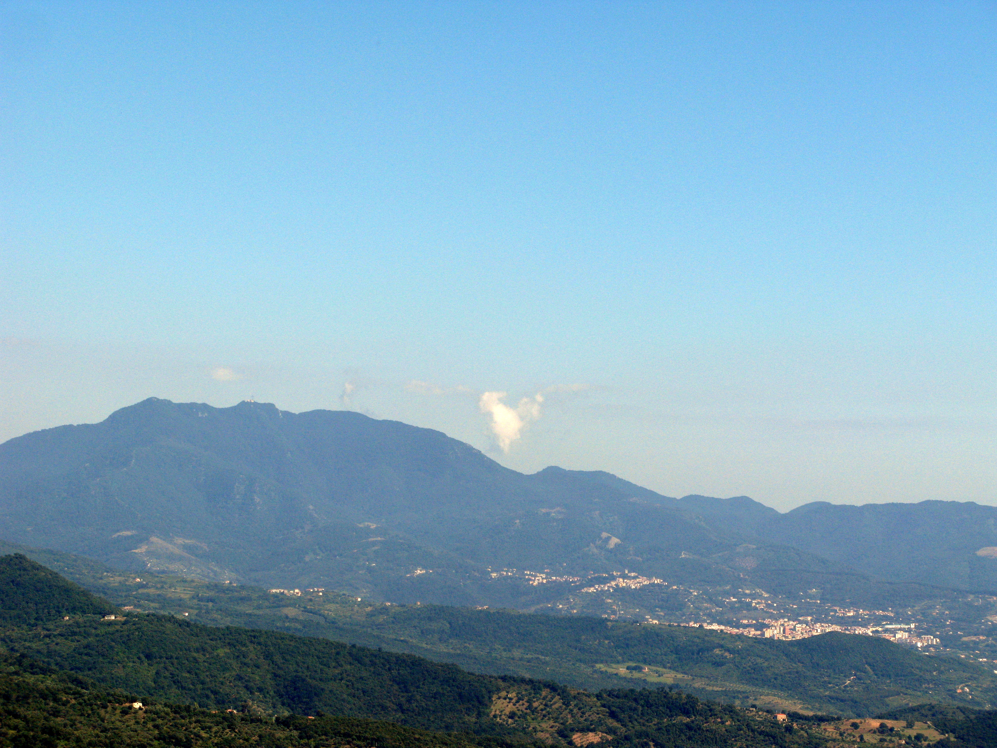 Mount Gelbison, in Italy